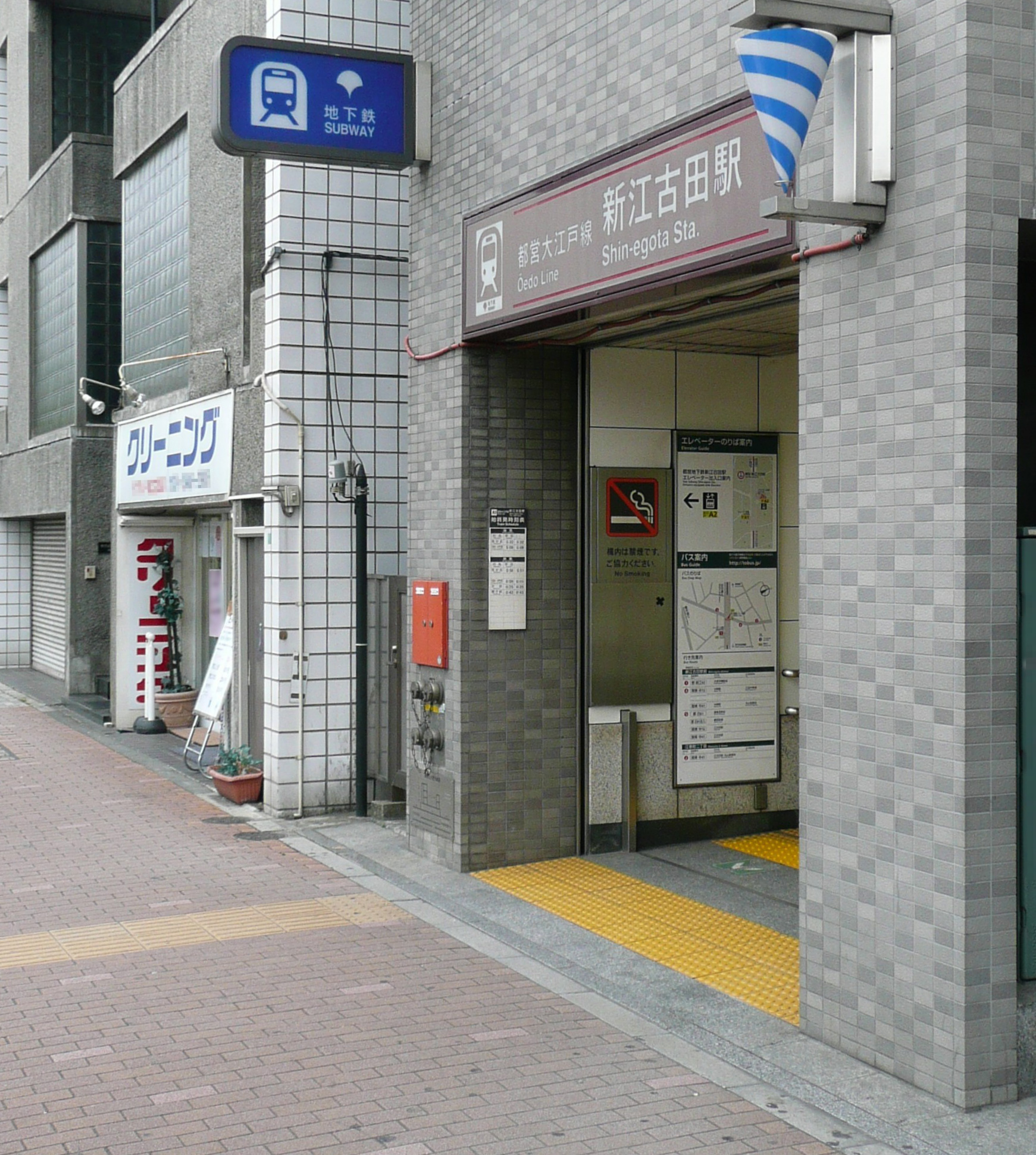 Entrance A2 to Shin-egota Station on the Toei Oedo Line in Tokyo, Japan